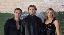 Photo of Scotland band while filming the video Movin On.